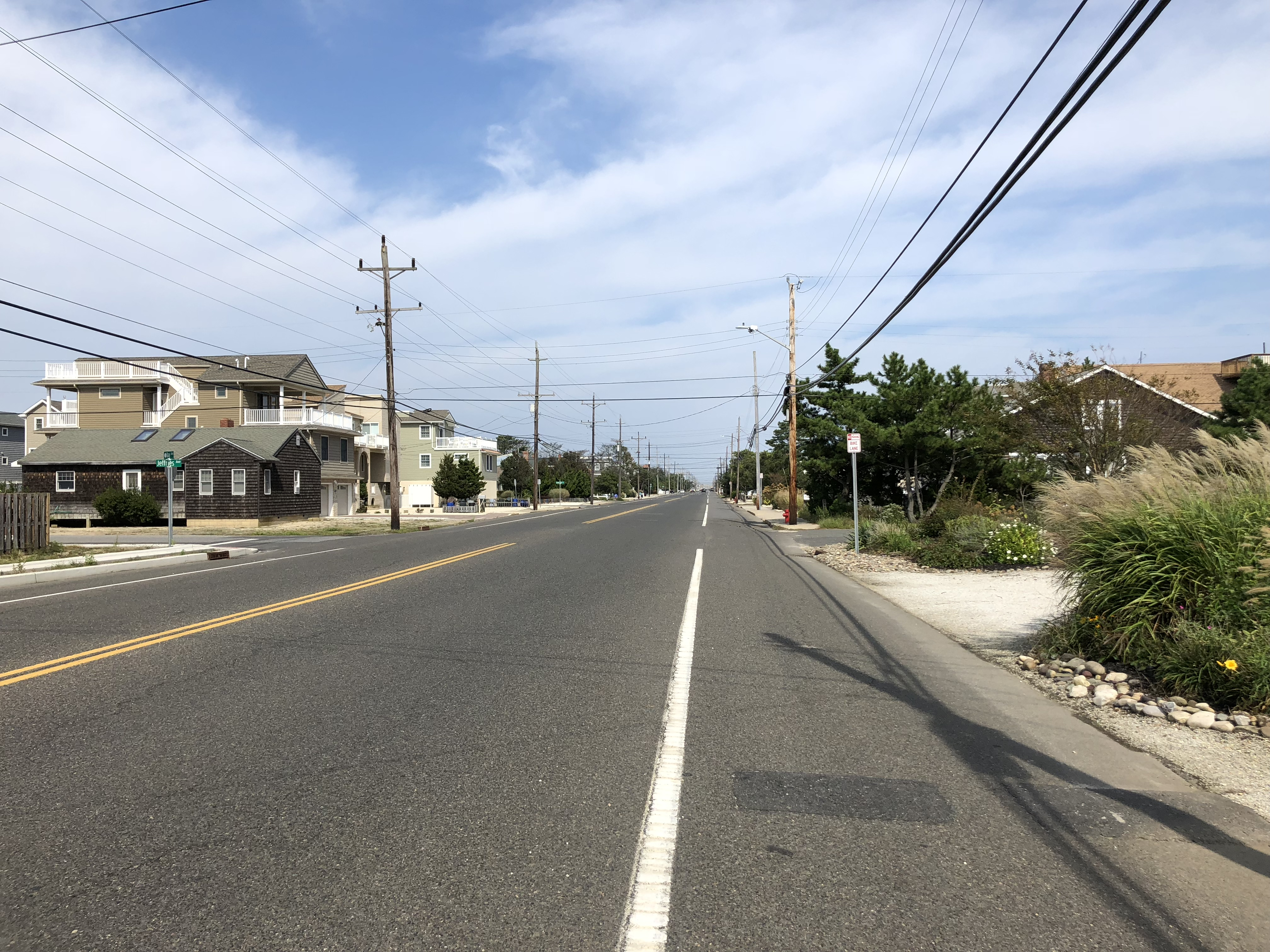 View north along Ocean County Route 607 (Bay Avenue) between Kentford Avenue and Jeffries Avenue in Beach Haven, Ocean County, New Jersey